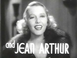 Cropped screenshot of Jean Arthur from the trailer for the film The Ex-Mrs. Bradford